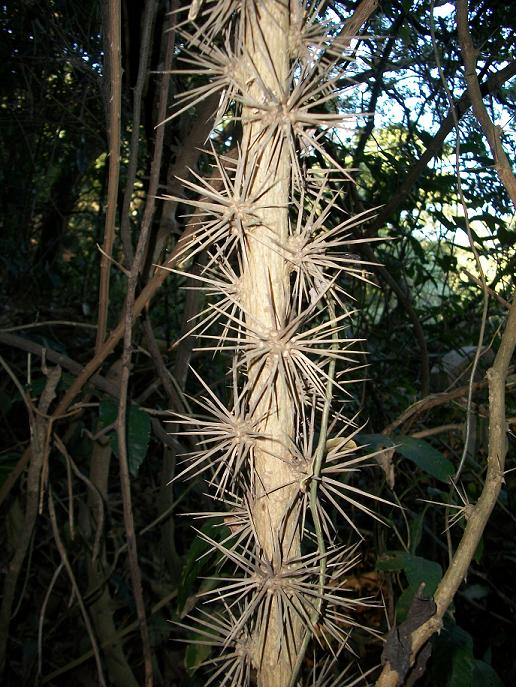 Mature stem of Pereskia aculeata at Ilanda Wilds